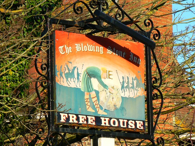 Sign outside the Blowing Stone Inn, Kingston Lisle, Oxfordshire (formerly Berkshire). It represents King Alfred beside the Blowing Stone, with troops in the background presumably assembling for the Battle of Ashdown Hill.